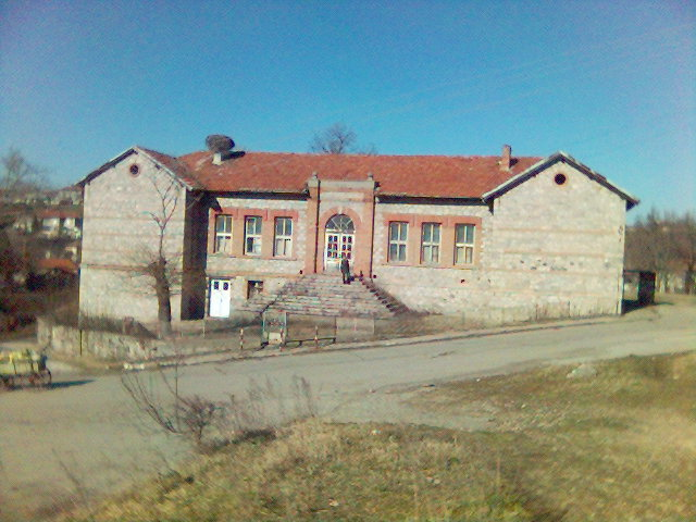 The school in village Bryagovo, Plovdiv District, Bulgaria